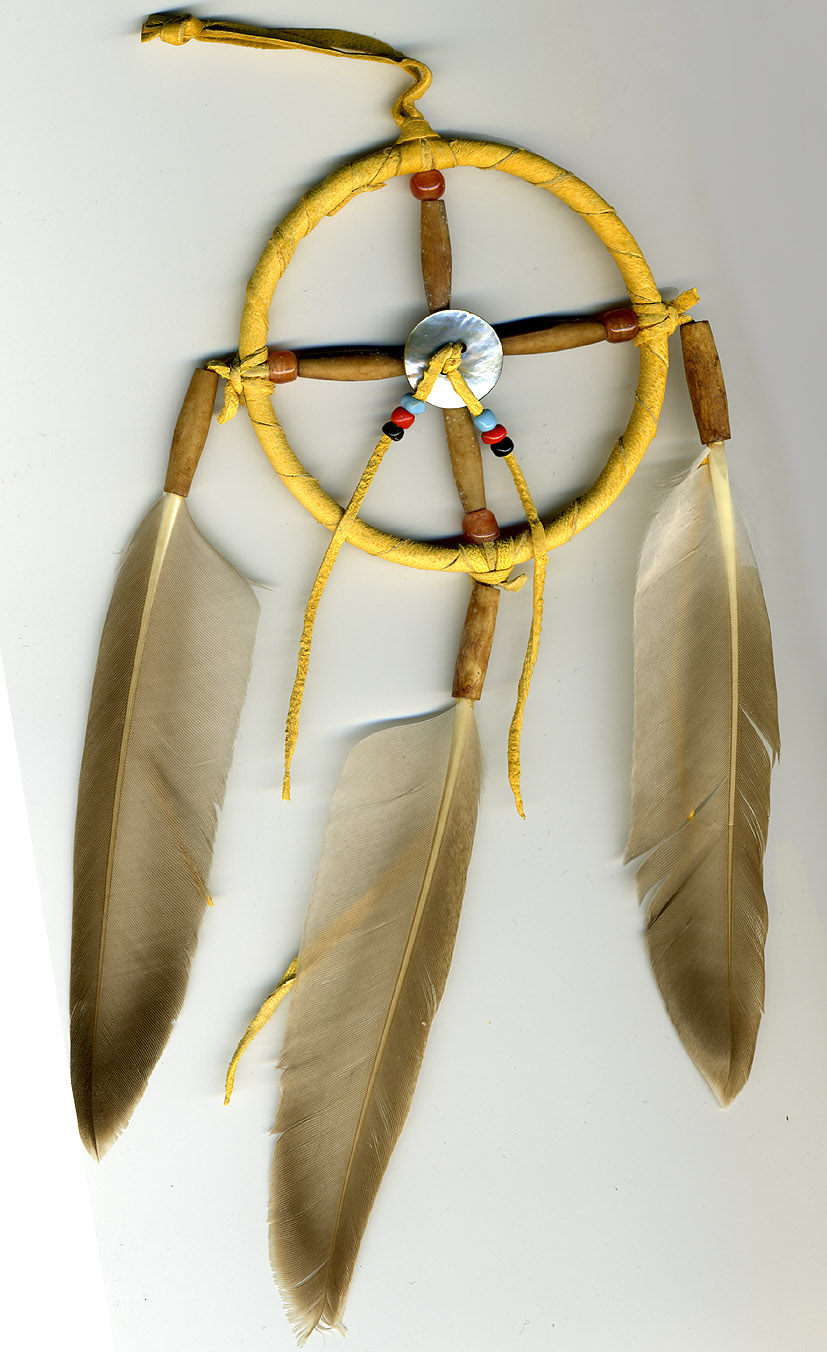 Medicine wheel of the Lakota Native American people